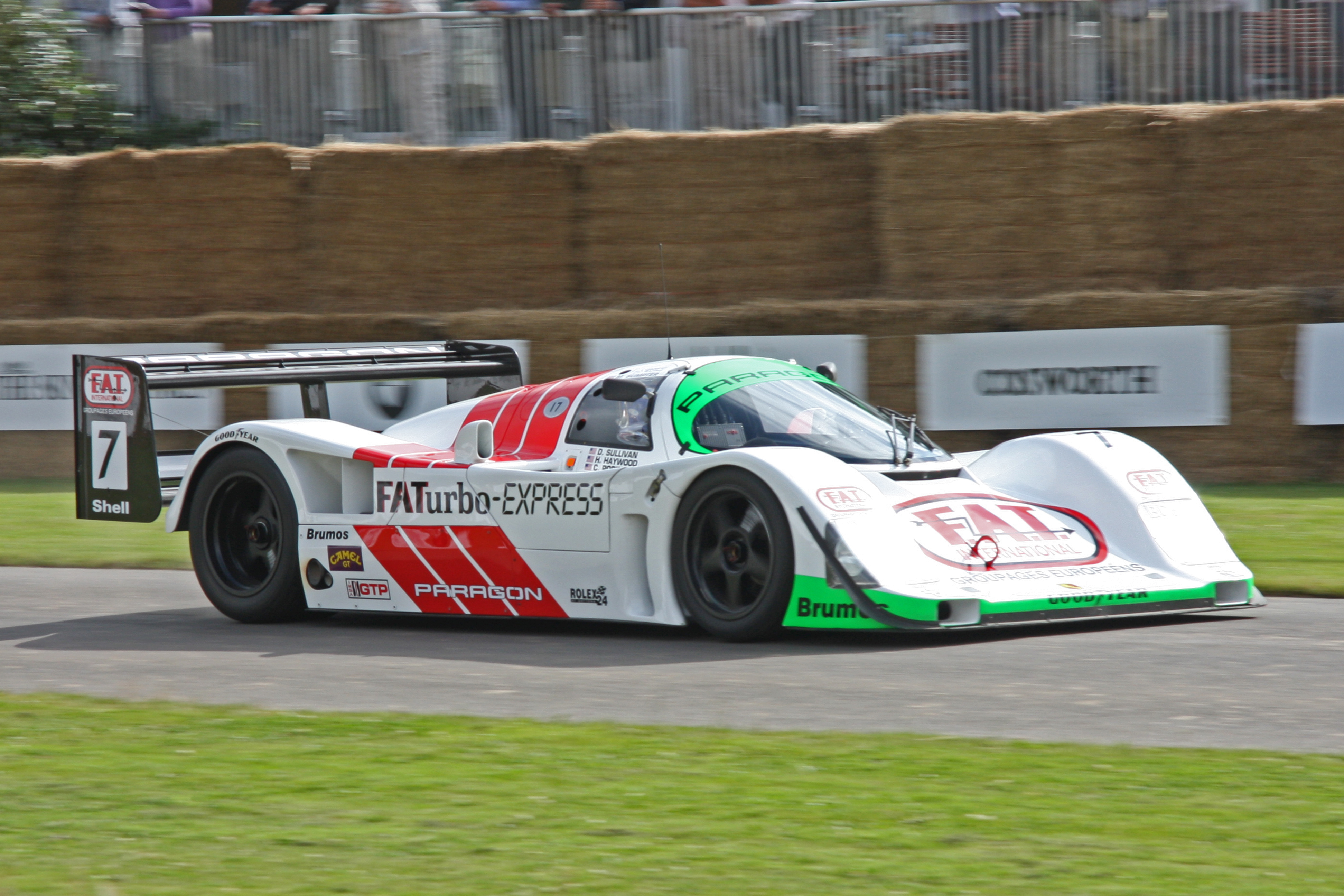 Joest Racing's Porsche 962C at the 2008 Goodwood Festival of Speed.